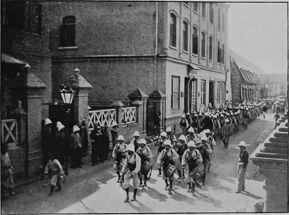 Identifier: cu31924023140977 Title: The land of the boxers, or, China under the allies Year: 1903 (1900s) Authors: Casserly, Gordon Subjects: Publisher: London New York Bombay : Longmans, Green, & Co. Text Appearing Before Image: alisation of Englandspredominance beyond the seas seemed to come onthose in China almost as a surprise. One remarkedto a member of the staff of our Fourth Brigade : Our voyage out here has brought home to mostof us for the first time how you English have laidyour hands on all parts of the earth worth having.In every port we touched at since we left Germany,everywhere we coaled, we found your flag flying.Gibraltar, Malta, Aden, Colombo, Singapore, HongKong—all British. Yes, added another, we have naturally beenaccustomed to regard our own country as thegreatest in the world. But outside it we foundour language useless. Yours is universal. I hadsaid to myself that Port Said, at least, is not British ;but there, too, your tongue is the chief medium ofintercourse. Here in China, even the coolies speakEnglish, or what they intend to be English. The German Organisation—perfect, perhaps, forEurope, where each country is a network of roadsand railways—was not so successful in China. For Text Appearing After Image: FRENCH COLONIAL INFANTRY MARCHING THROUGH THEFRENCH CONCESSION, TIENTSIN